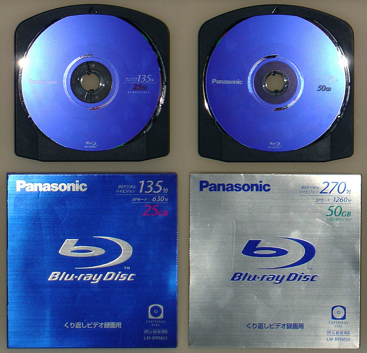 (Left) Blu-ray Disc LM-BRM25 (Panasonic). Single layer discs BD-RE with 25GB capacity and cartridges. (Right) Blu-ray Disc LM-BRM50 (Panasonic). Dual layer discs BD-RE with 50GB capacity and cartridges. Taken on the consumer electronics fair IFA2005 in Berlin.